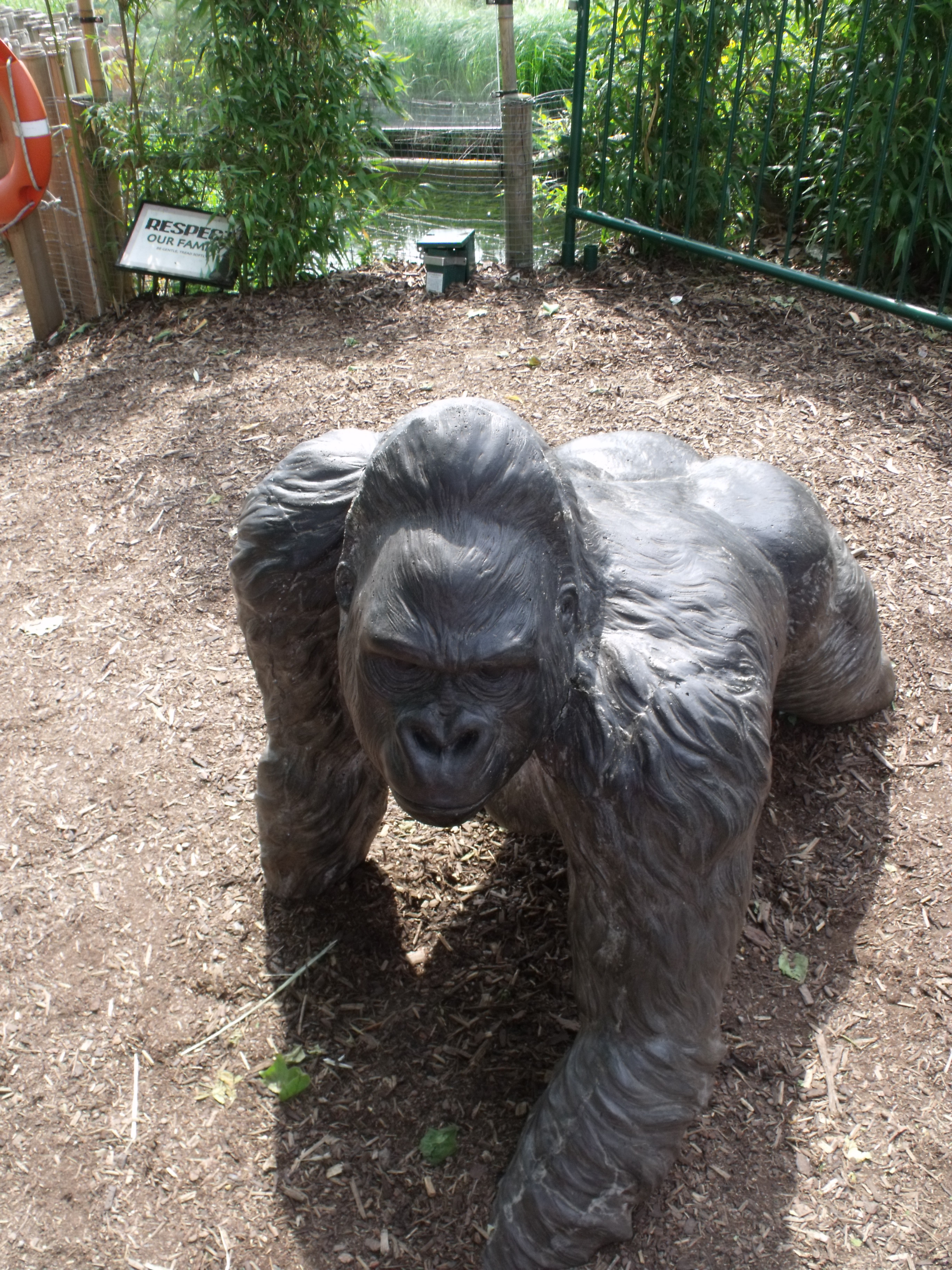 Statue of a silverback gorilla by Bruce Pollin.